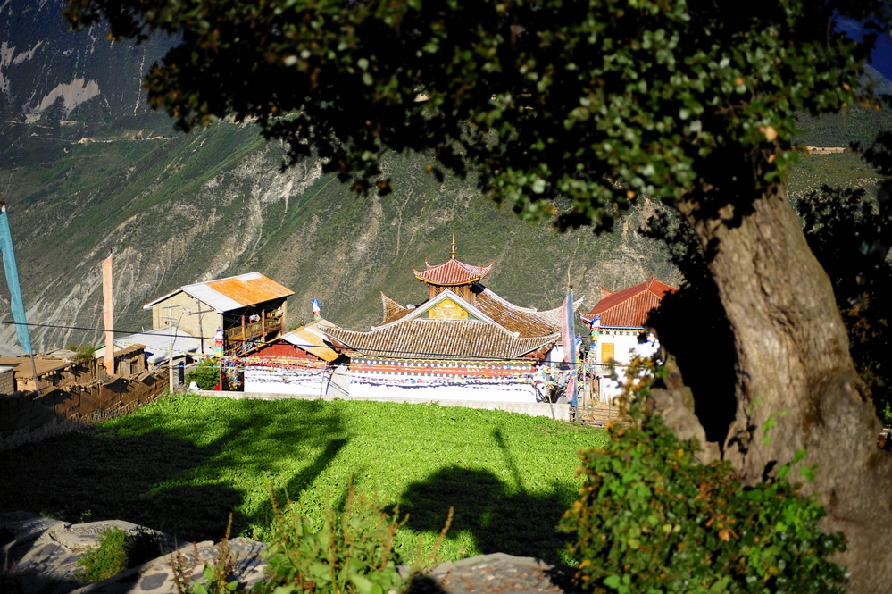 Dequen County, Kham, Yunnan